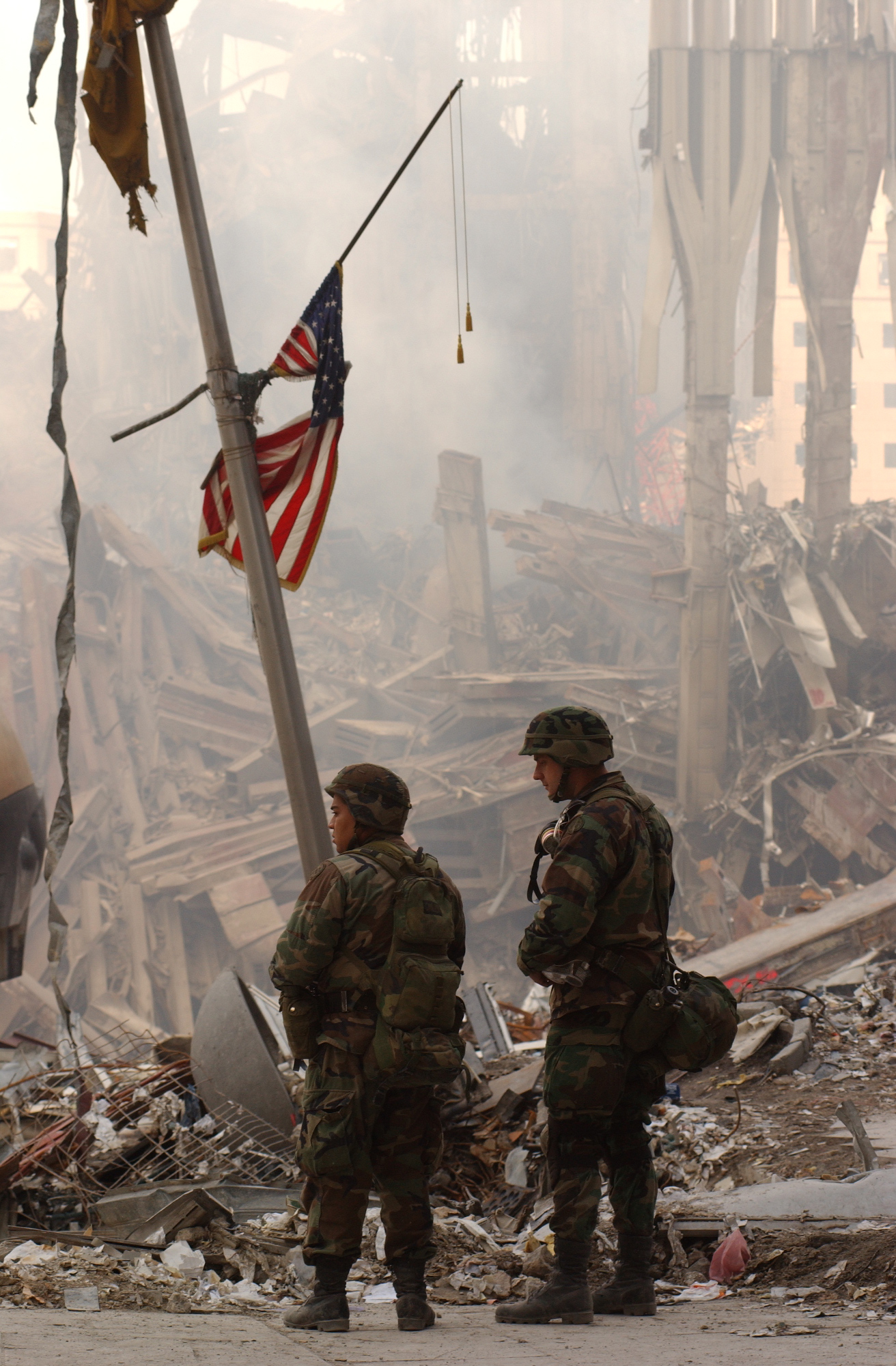 Two members of the National Guard stand beneath one of hundreds of American flags that have been hoisted or worn by rescue workers at the site of the World Trade Center.